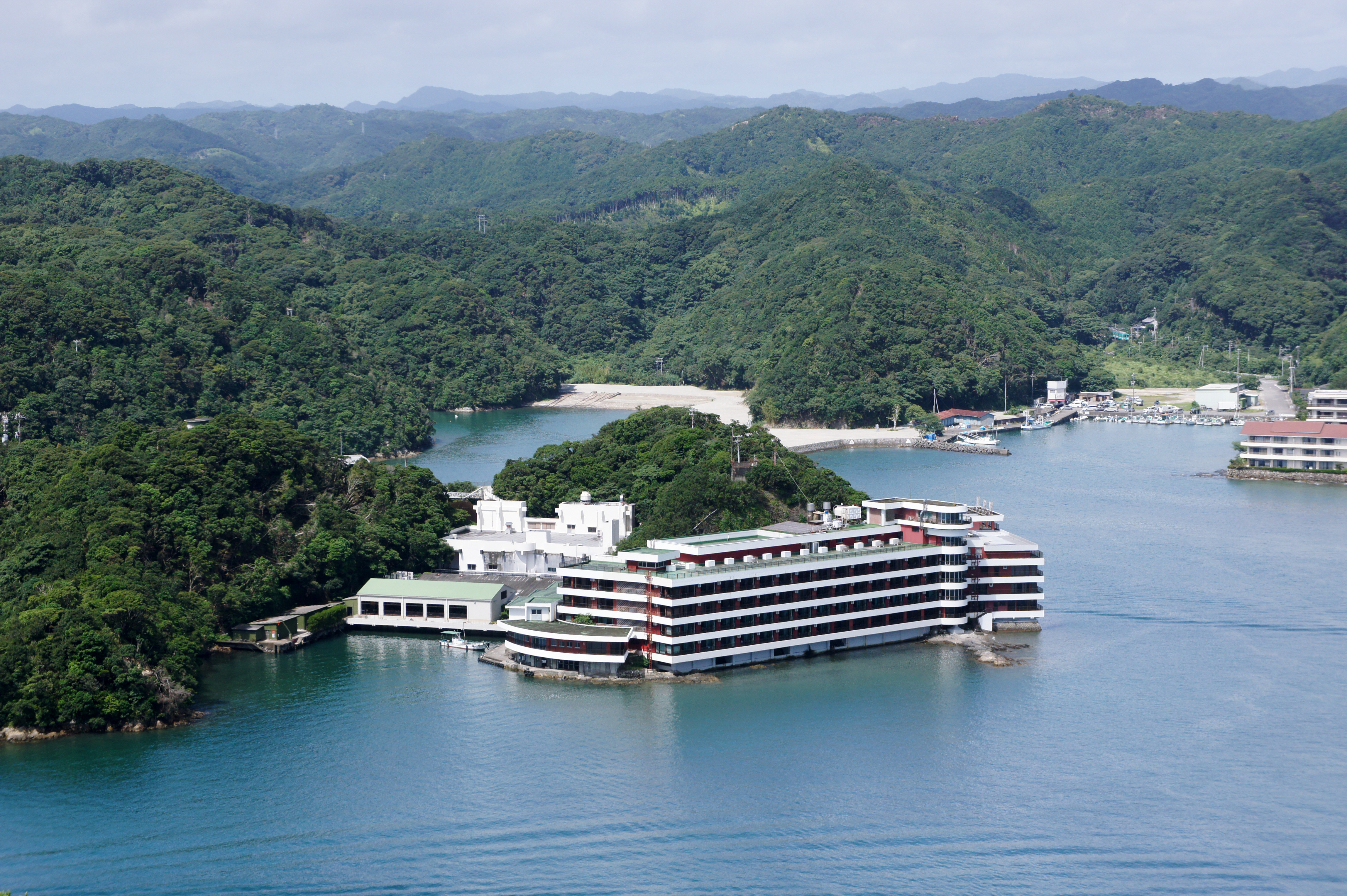 Hotel Nakanoshima in Nachikatsuura, Wakayama prefecture, Japan.